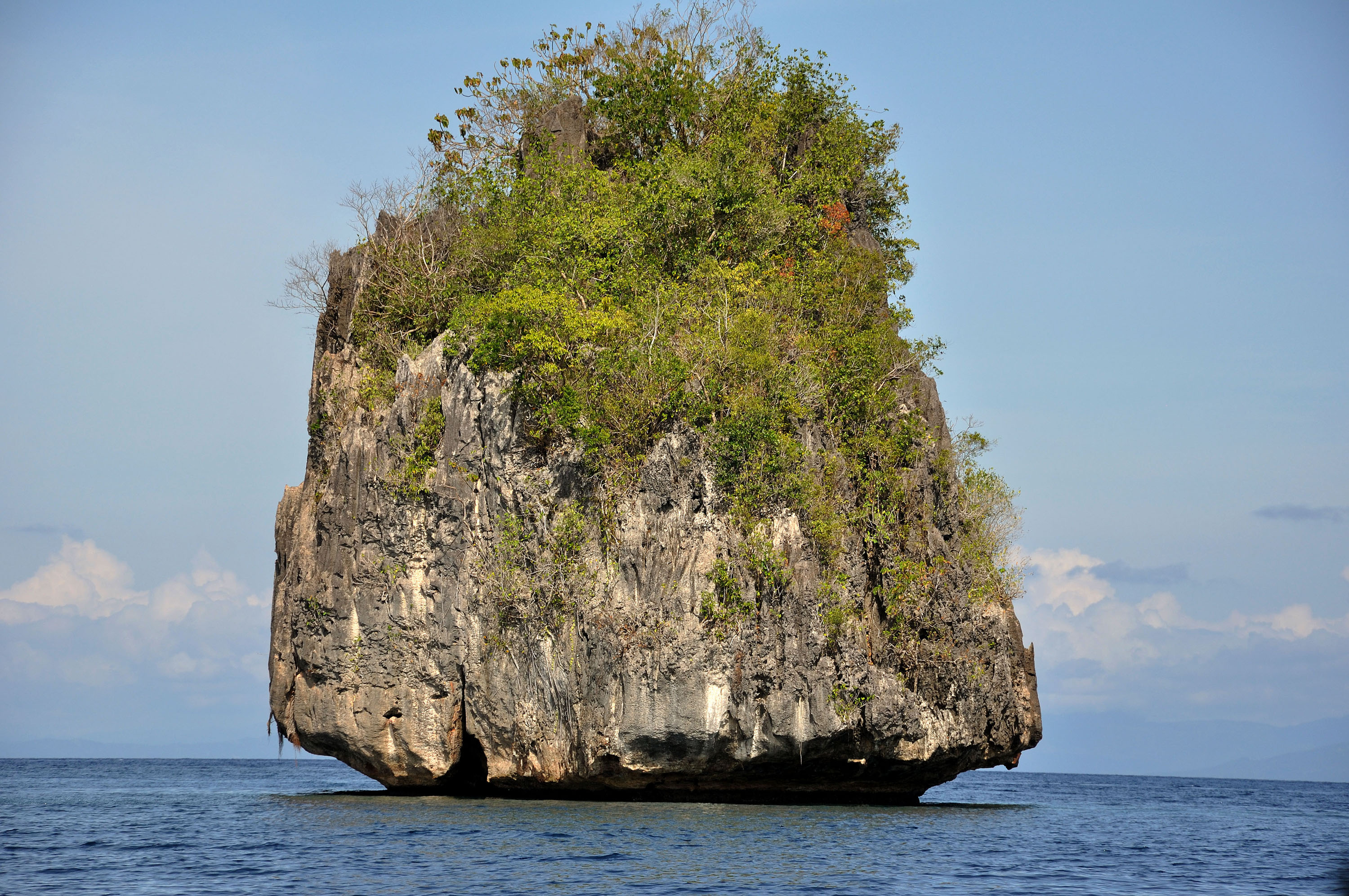 An islet off Dinagat, Philippines, home to Nepenthes viridis